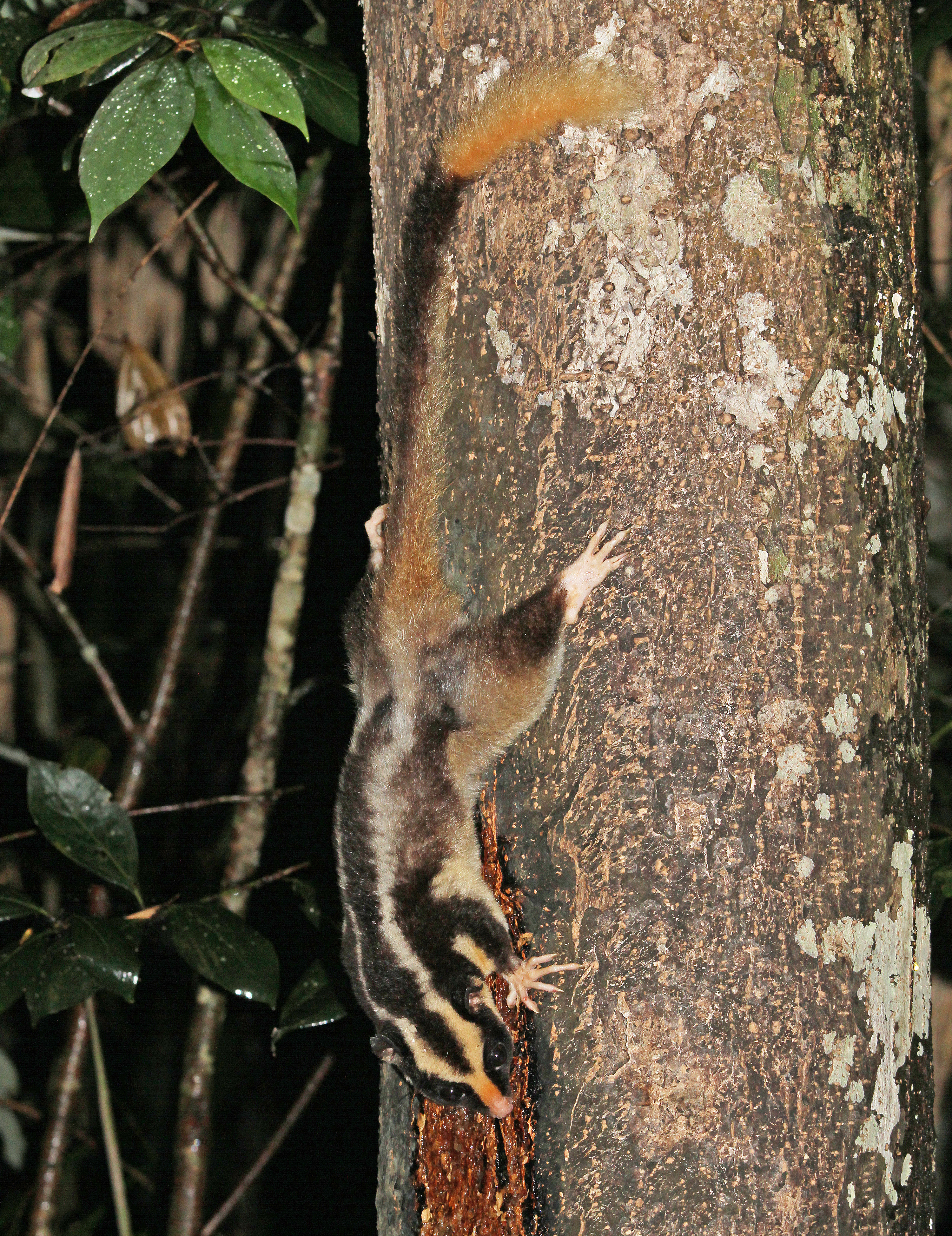 photo of Striped Possum